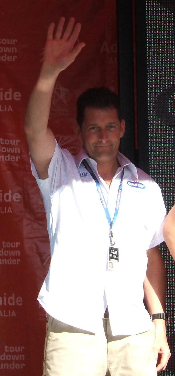 Named cyclist at the en:2009 Tour Down Under team presentation